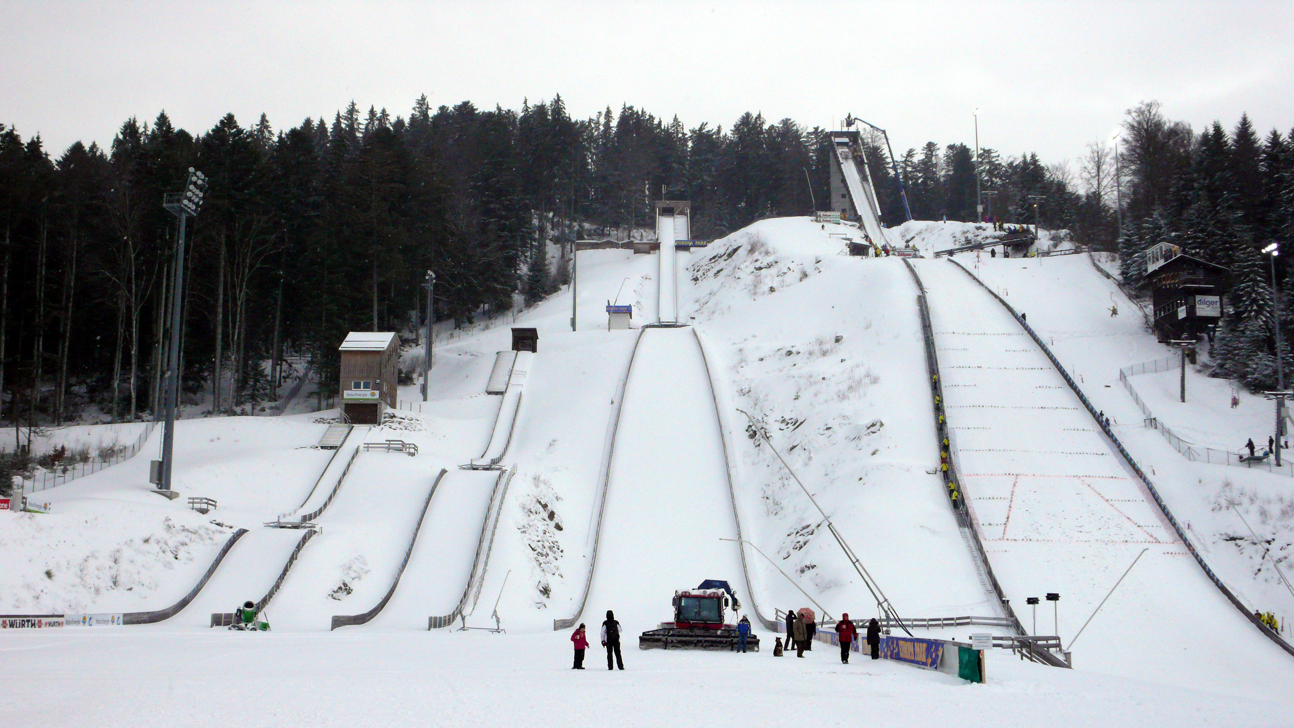 Adlerschanze, Hinterzarten